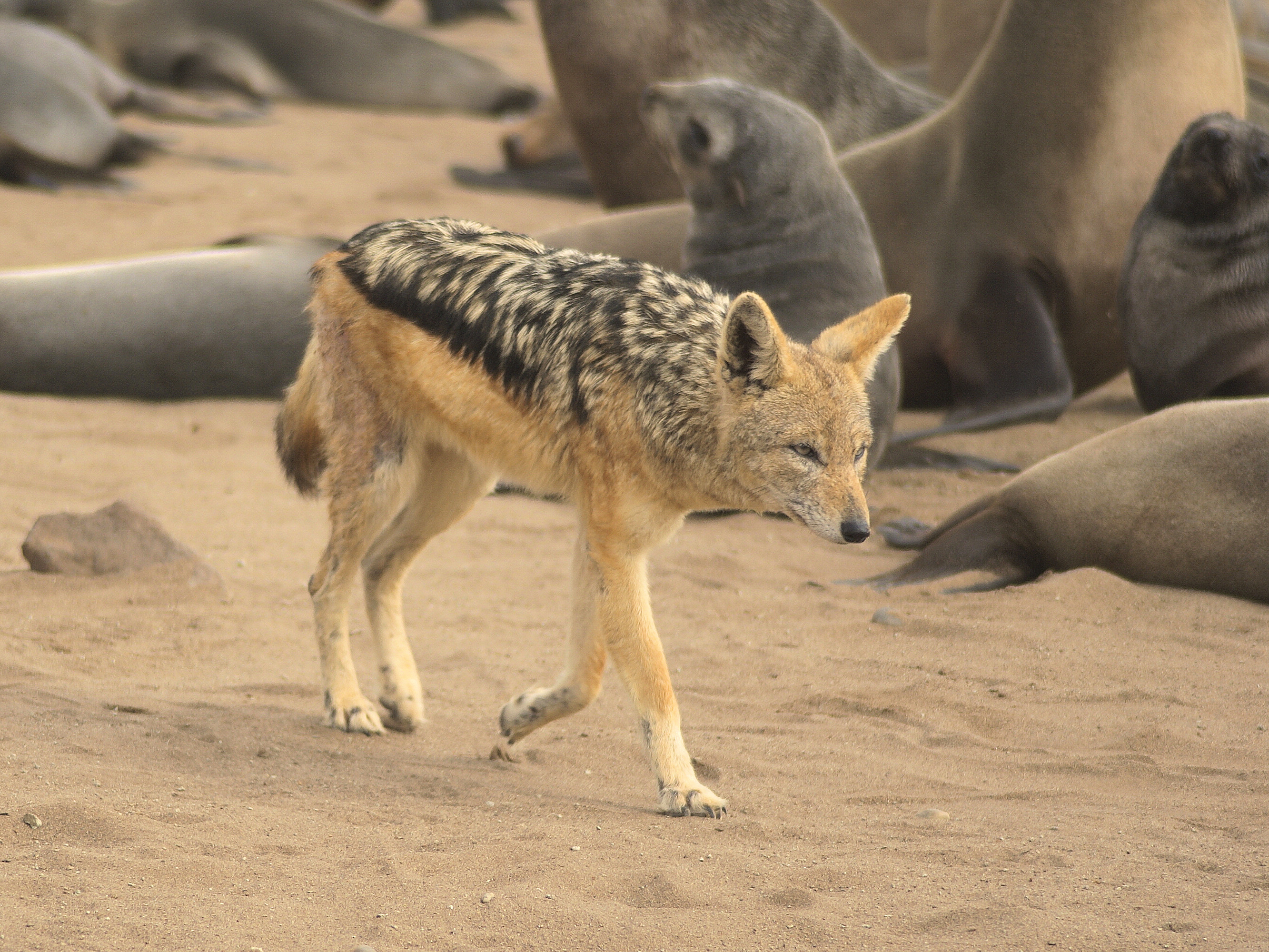 A black-backed jackal scavenging amongst Cape fur seals at Cape Cross on the Skeleton Coast, Namibia